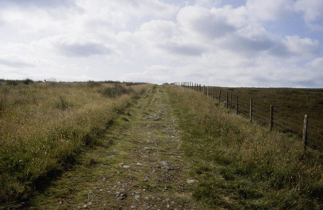 Maiden Way Roman Road that once saw Agricola's army march upon its surface. Now adopted by the Pennine Way